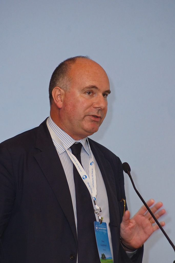 John Laughland at Rhodes Forum 2014 "Preventing World War Through Global Solidarity: 100 Years On"